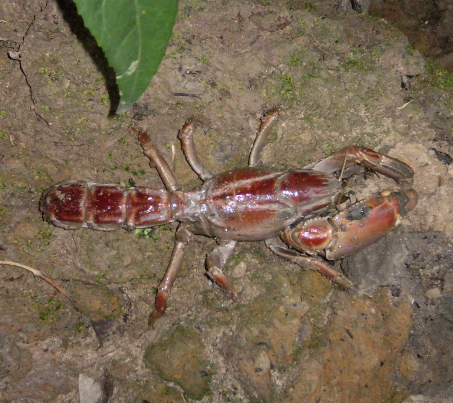 Thalassina anomala(Okinawa Anajako)